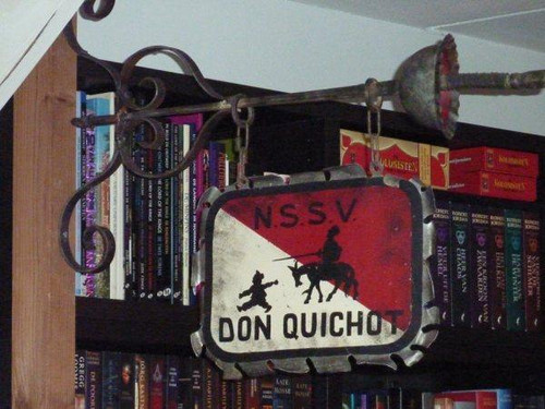 Sign for the Student Fencing team N.S.S.V. Don Quichote from Nijmegen, the Netherlands